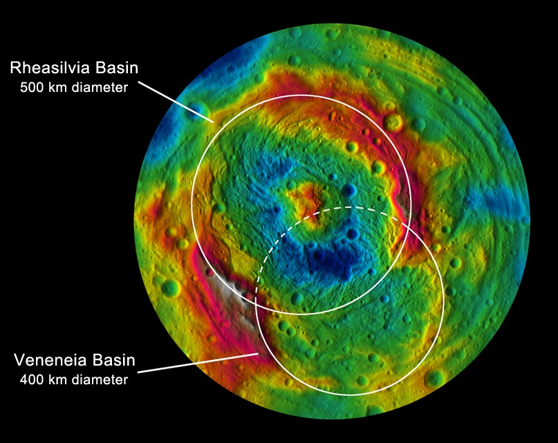 Image PIA15665. Original caption: South Polar Impacts This topographic map from NASA's Dawn mission shows the two large impact basins in the southern hemisphere of the giant asteroid Vesta. The map is color-coded by elevation, with red showing the higher areas and blue showing the lower areas. Rheasilvia, the largest impact basin on Vesta, is 310 miles (500 kilometers) in diameter. Scientists estimate that it formed 1 billion years ago by counting the number of smaller craters that have formed on top of it. The other basin, Veneneia, is 250 miles (400 kilometers) across and lies partially beneath Rheasilvia. Scientists estimate that Veneneia is at least 2 billion years old. The topography was derived from images taken by Dawn's framing camera during Dawn's high-altitude mapping orbit, which averaged about 420 miles (680 kilometers) in altitude and took place from Sept. 30 to Nov. 2, 2011. The resolution during that orbit was about 200 feet (60 meters) per pixel.